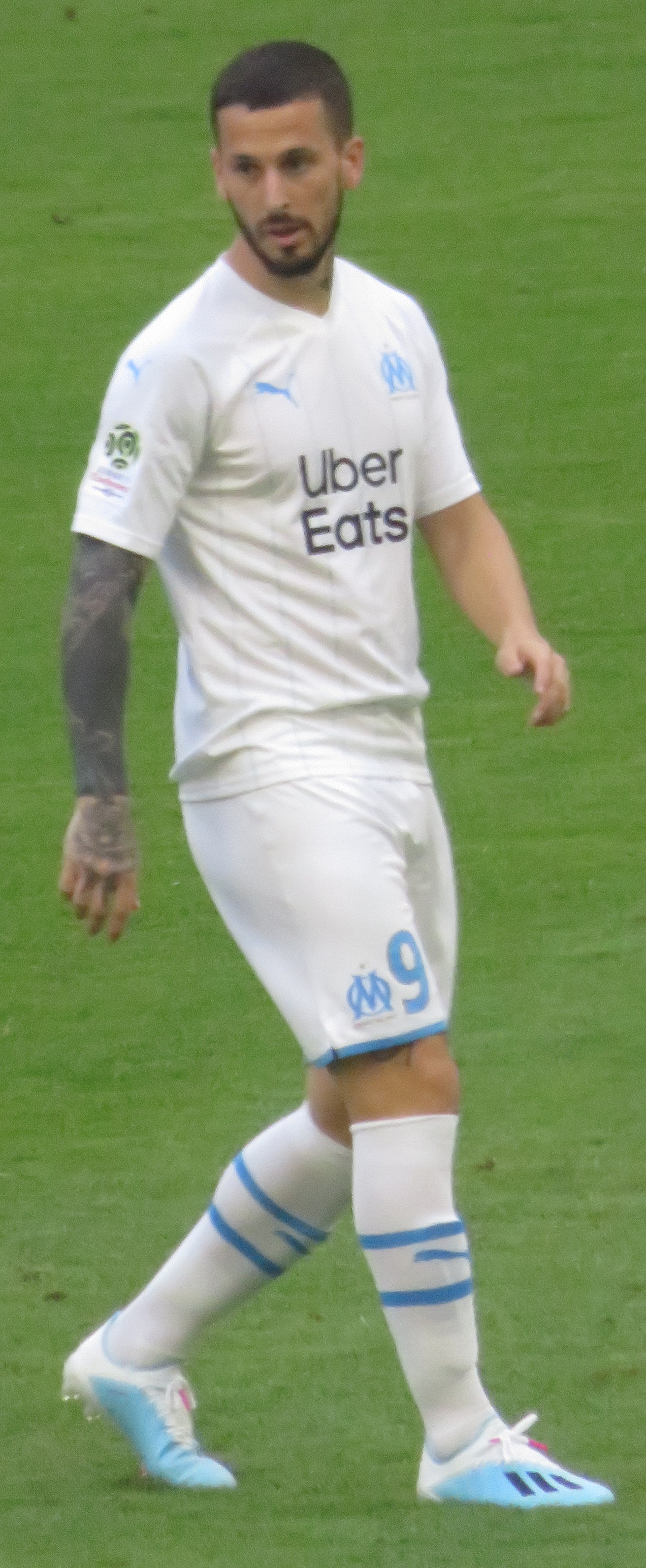 Dario Benedetto after coming into play in the 73rd minute of play on Saturday, August 10 against the Stade de Reims. These are the first steps of Dario in the jersey of Olympique Marseille.